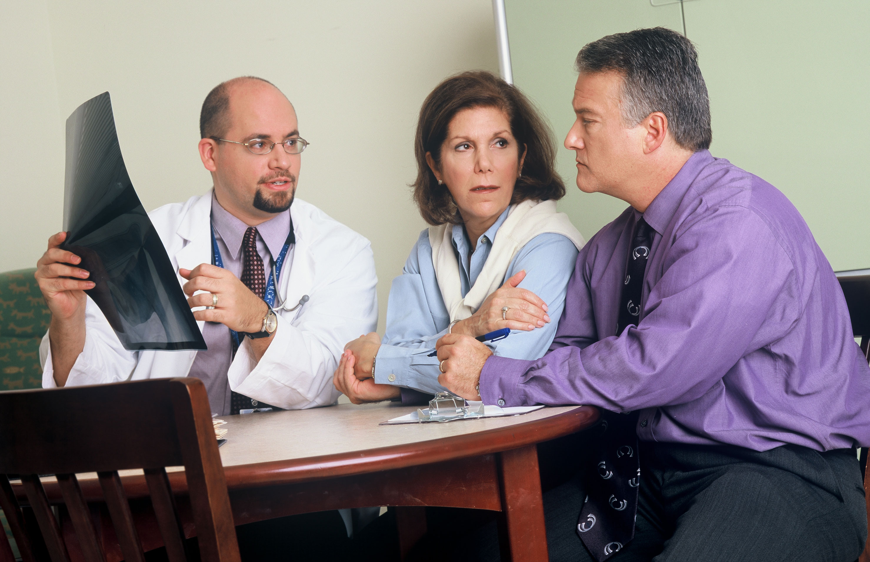 Title Doctor Discusses X-ray with Patient Description A male doctor holds up an x-ray as he consults with a Caucasian adult couple (female and male). Topics/Categories People -- Adult People -- Health Professional and Patient Type Color, Photo Source National Cancer Institute